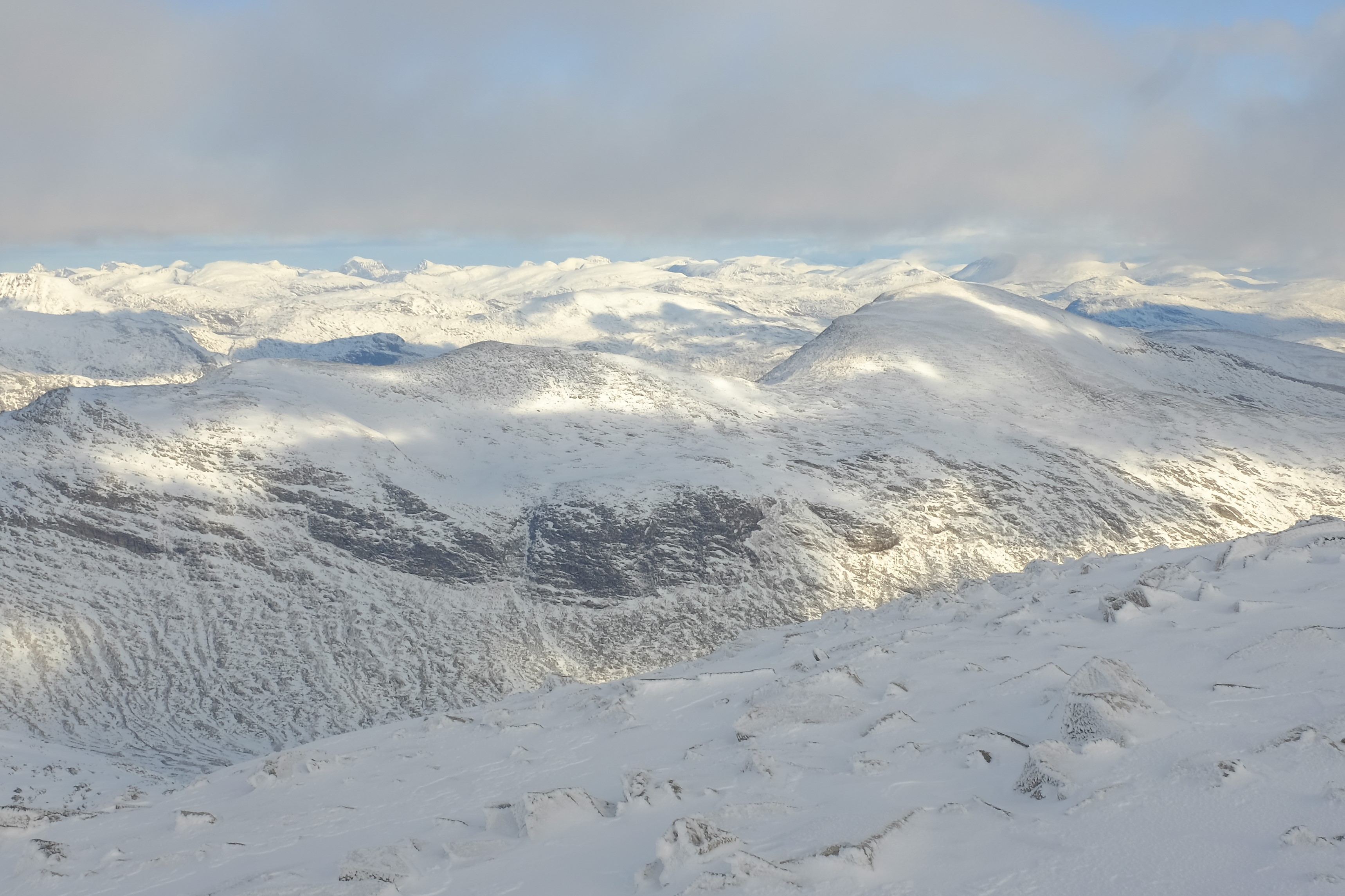 Montains in Reinheimen National Park in Norway. The national park that was established in 2006. The park consists of a 1,969-square-kilometre (760 sq mi) continuous protected mountain area. It is located in Møre og Romsdal and Oppland counties in Western Norway.